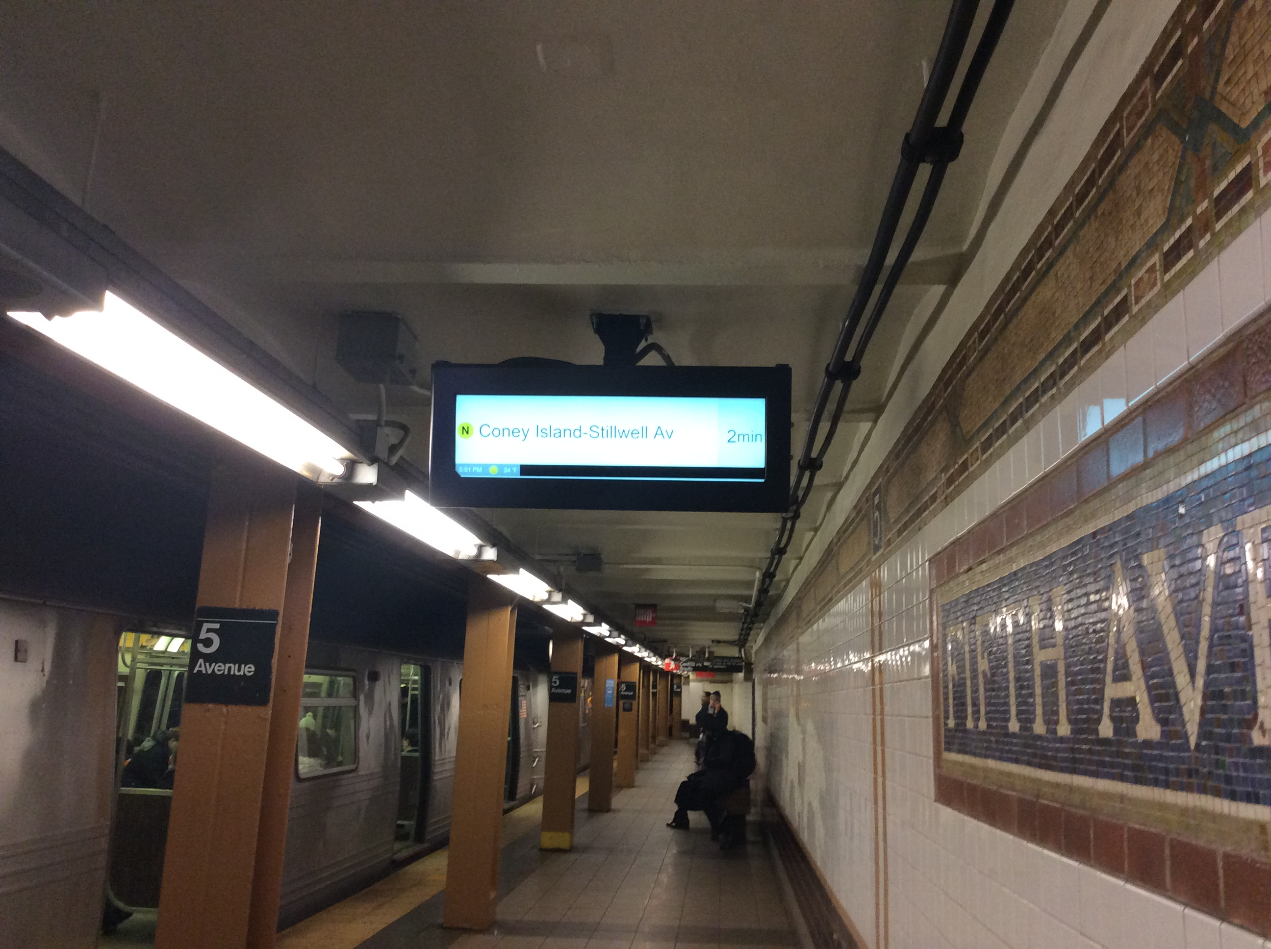 5 Av-59 St Station platform in February 2017